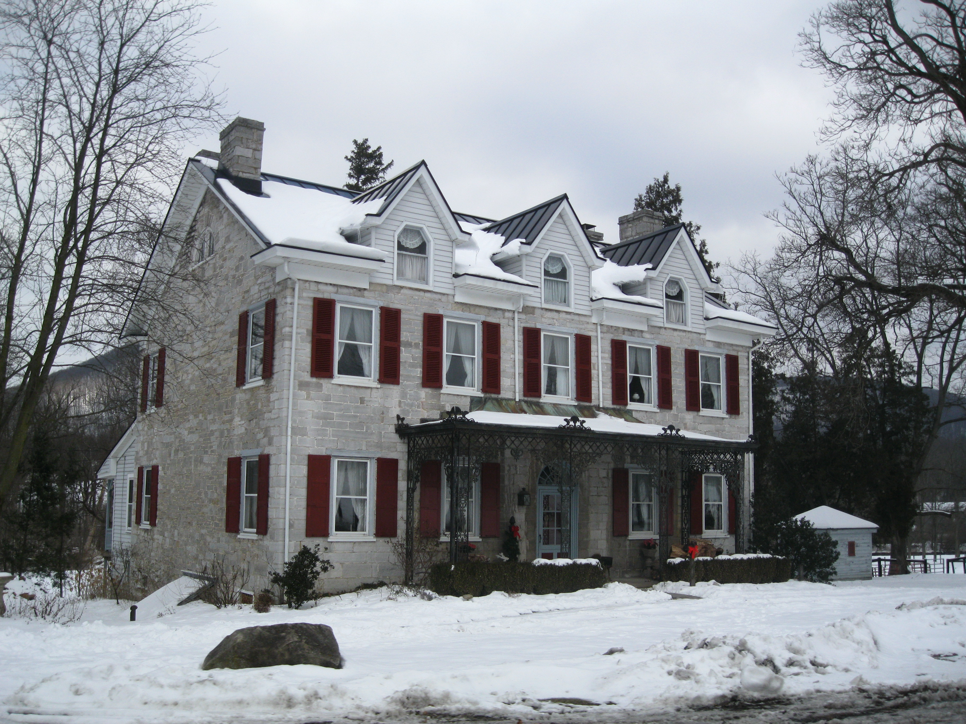 Oak Hall Historic District in the village of Oak Hall in College Township, Centre County, Pennsylvania, USA. The historic district was added to the NRHP in 1979 The Irvin Mansion is a two story limestone house built about 1825 by James Irvin